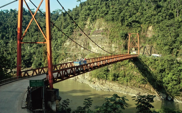 InteroceanicaPeru